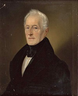 Josef Heinrich Beckers zu Westerstetten (1764-1840), österr. Feldmarschall-Leutnant